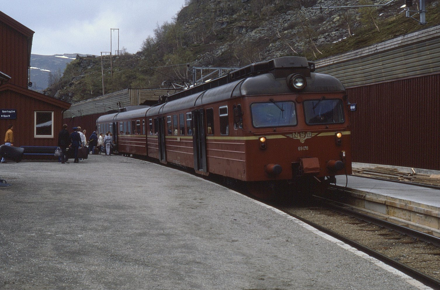 Class BM69 EMU, 69.018 seen at Myrdal on 8 June 1986 on the 18:12 service through to Bergen.